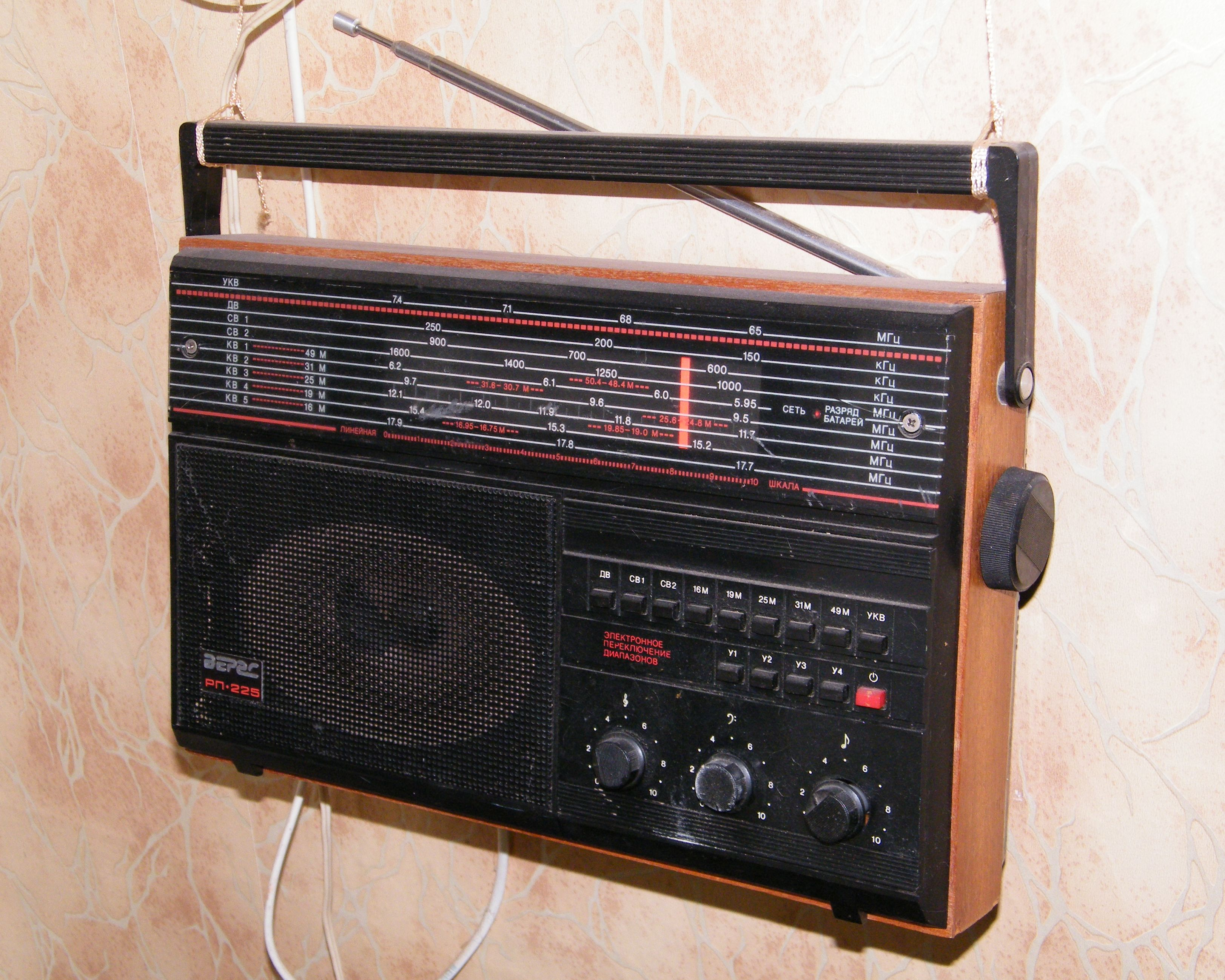 Veras RP-225 portable radio receiver, USSR, Grodno factory, 1990